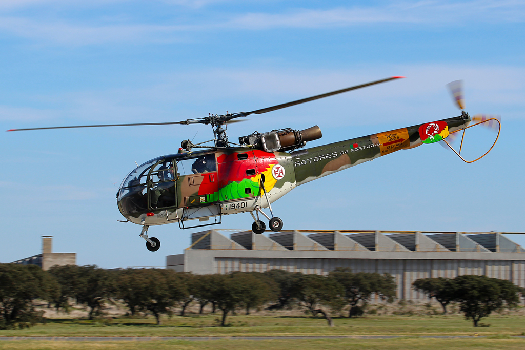 Portuguese Air Force Alouette III at Beja Air Force Base.